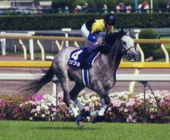 クロフネ（2001年5月6日、東京競馬場にて撮影）撮影者:Goki Kurofune, it takes a picture in Tokyo Racecourse on May 6, 2001.